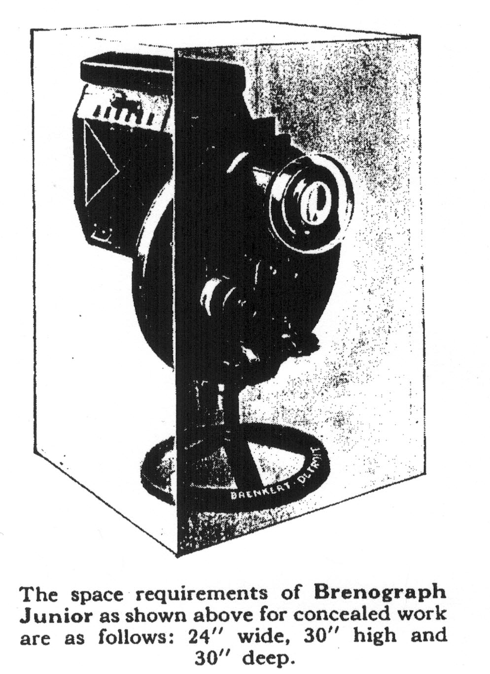 Brenkert Brenograph Jr. projector manufactured by Brenkert Light Projection Company, Detroit, MI in the 1920s. The projector was used to project images of moving clouds on the ceiling of atmospheric theatres, a style of movie palace popular in the 1920s. The projector cost $225.00.